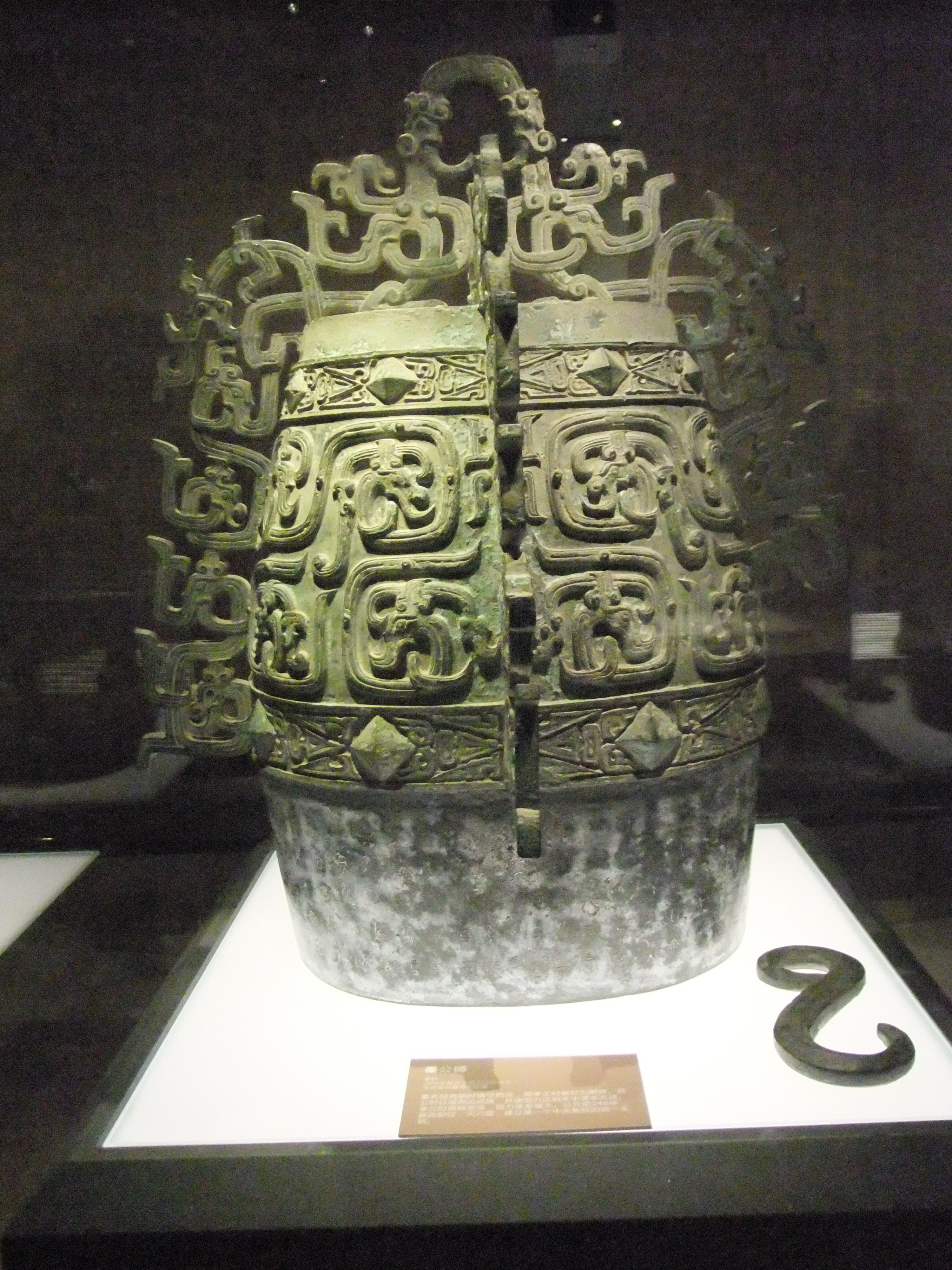 The Qinggong Bo (Bo of the Duke Qin) is a bronze musical instrument, Spring and Autumn period (770-476 B.C.), excavated in 1978 in Taigongmiao Village, Baoji, Shaanxi. It is preserved in Baoji Bronze Ware Museum. Photo taken in February 2018 in Hunan Museum Exhibition, Changsha, Hunan, China. 中文（中国大陆）: 秦公镈，春秋时期，1978年出土于陕西省宝鸡市太公庙村。现存于宝鸡青铜器博物院。2018年2月拍摄于湖南省博物馆的《春秋战国文物大联展》。